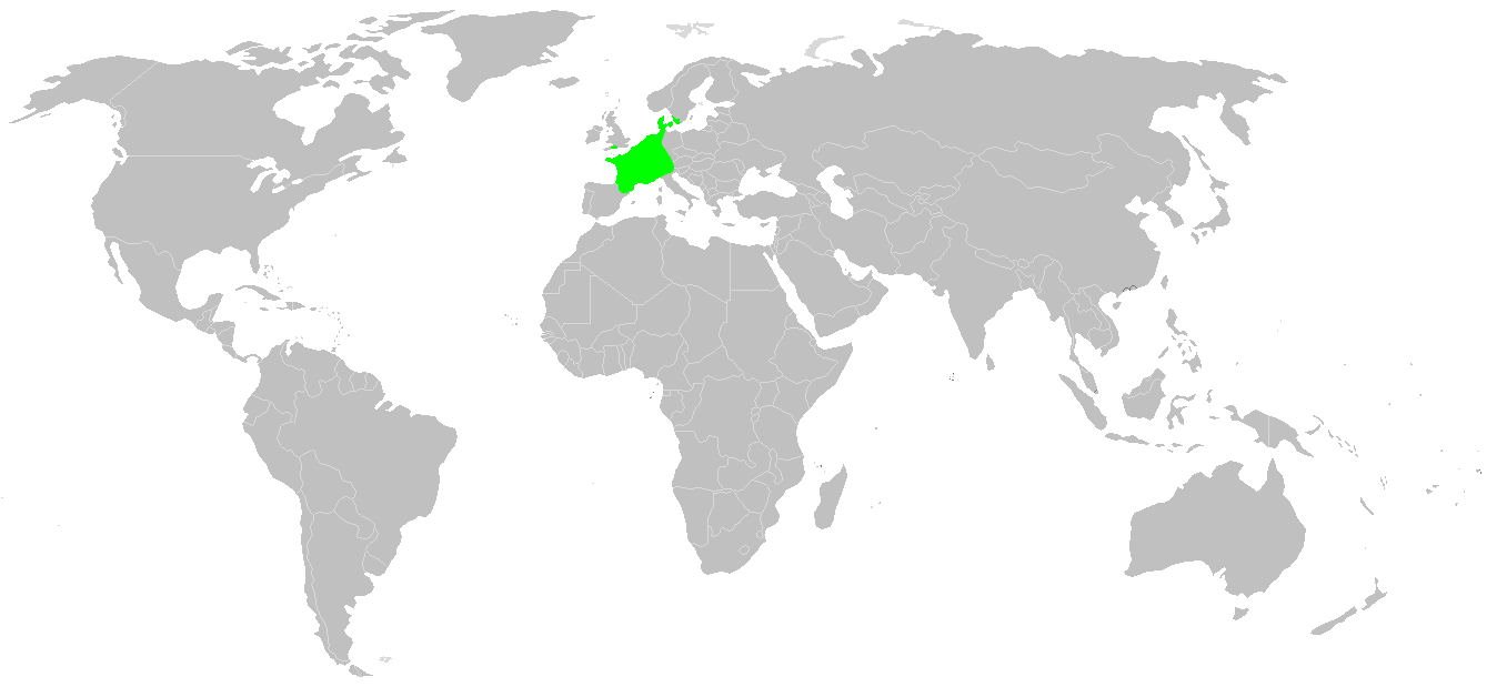 Known world distribution of Eresus sandaliatus, after data from British Arachnological Society, 2006.